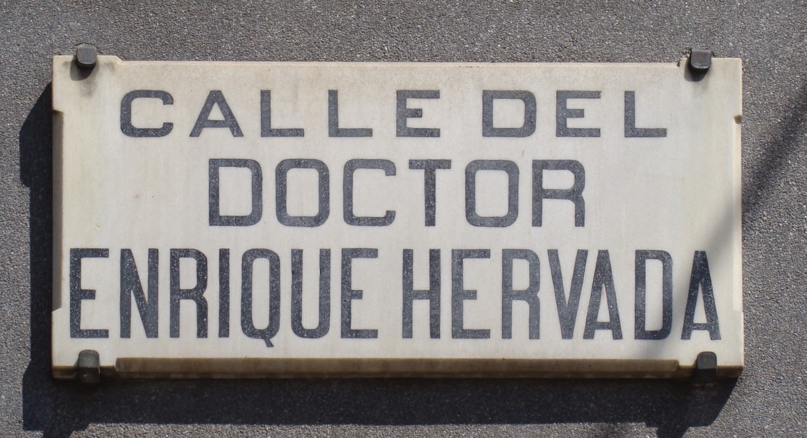 Doctor Enrique Hervada street sign in A Coruña, Galicia, Spain.